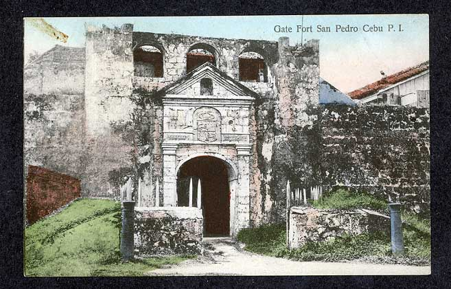 Fuerza de San Pedro, circa 1899